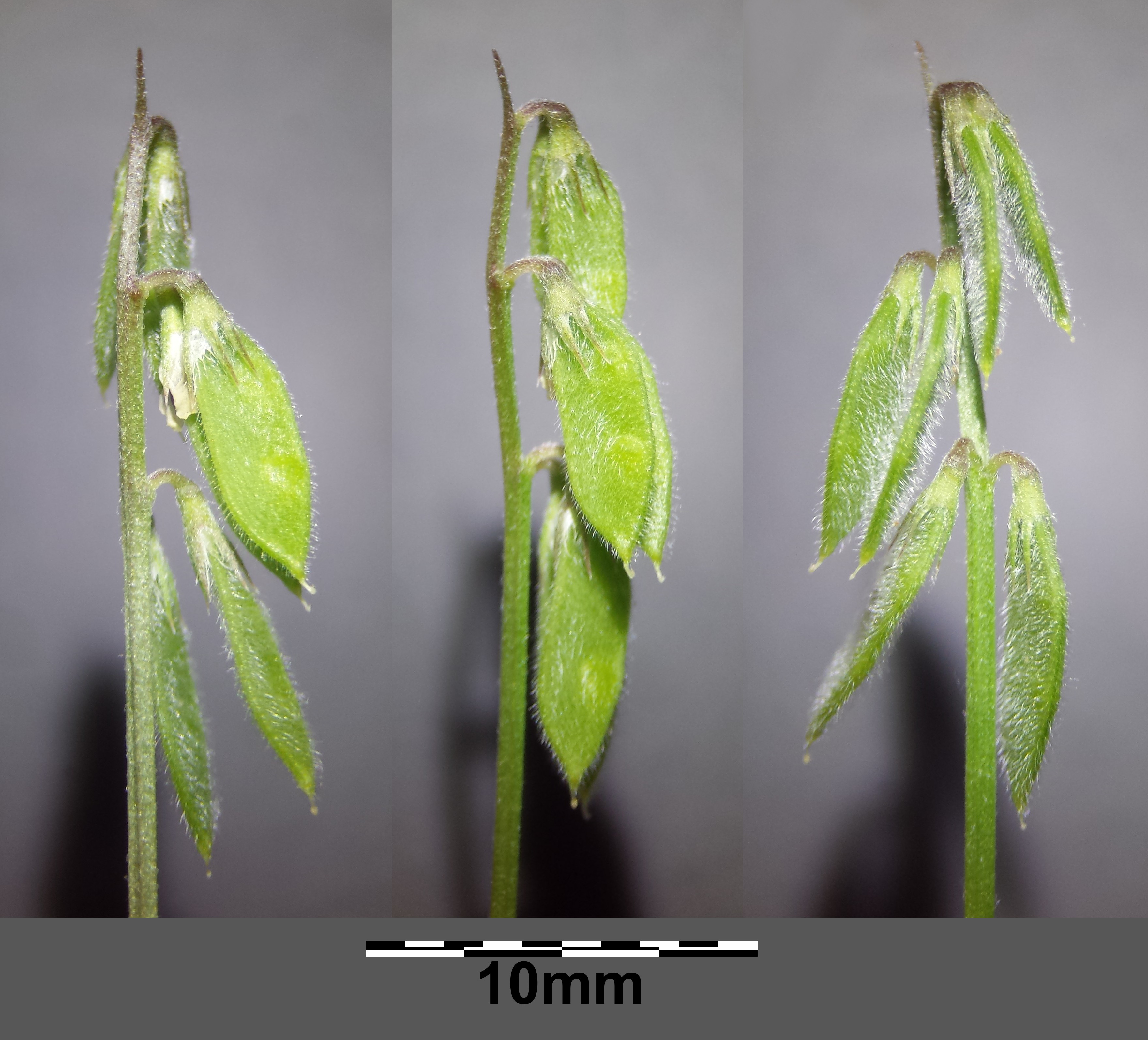 Infructescence Taxonym: Vicia hirsuta ss Fischer et al. EfÖLS 2008 ISBN 978-3-85474-187-9 Location: Neue Donau, district Korneuburg, Lower Austria - ca. 160 m a.s.l. Habitat: dry slope